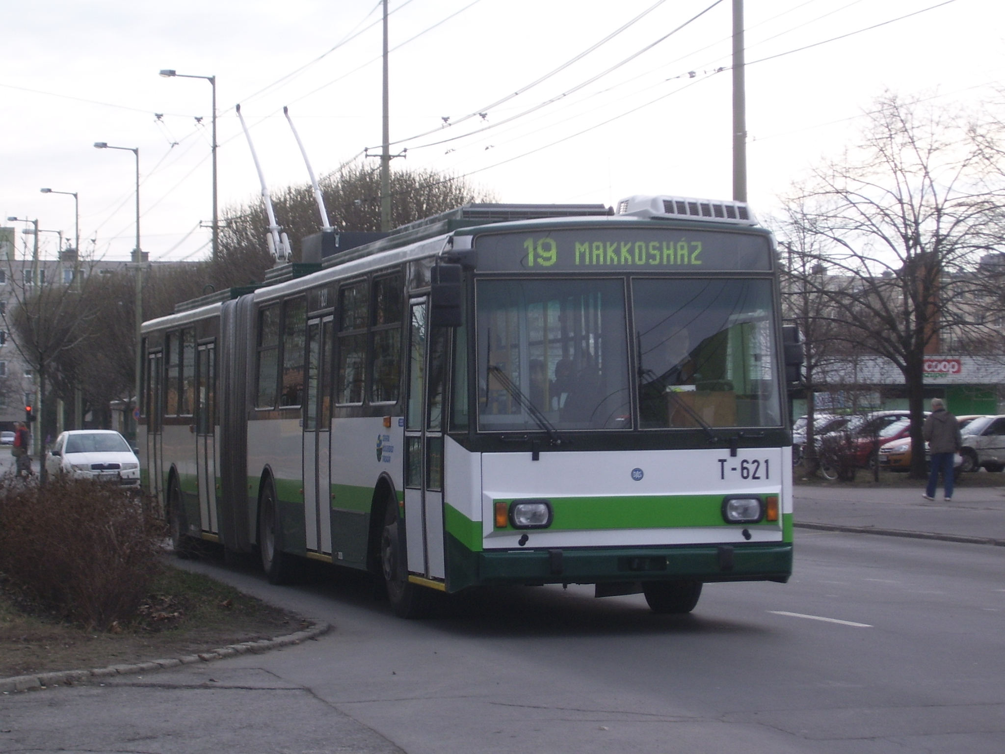 Trolley line 19 in Szeged.